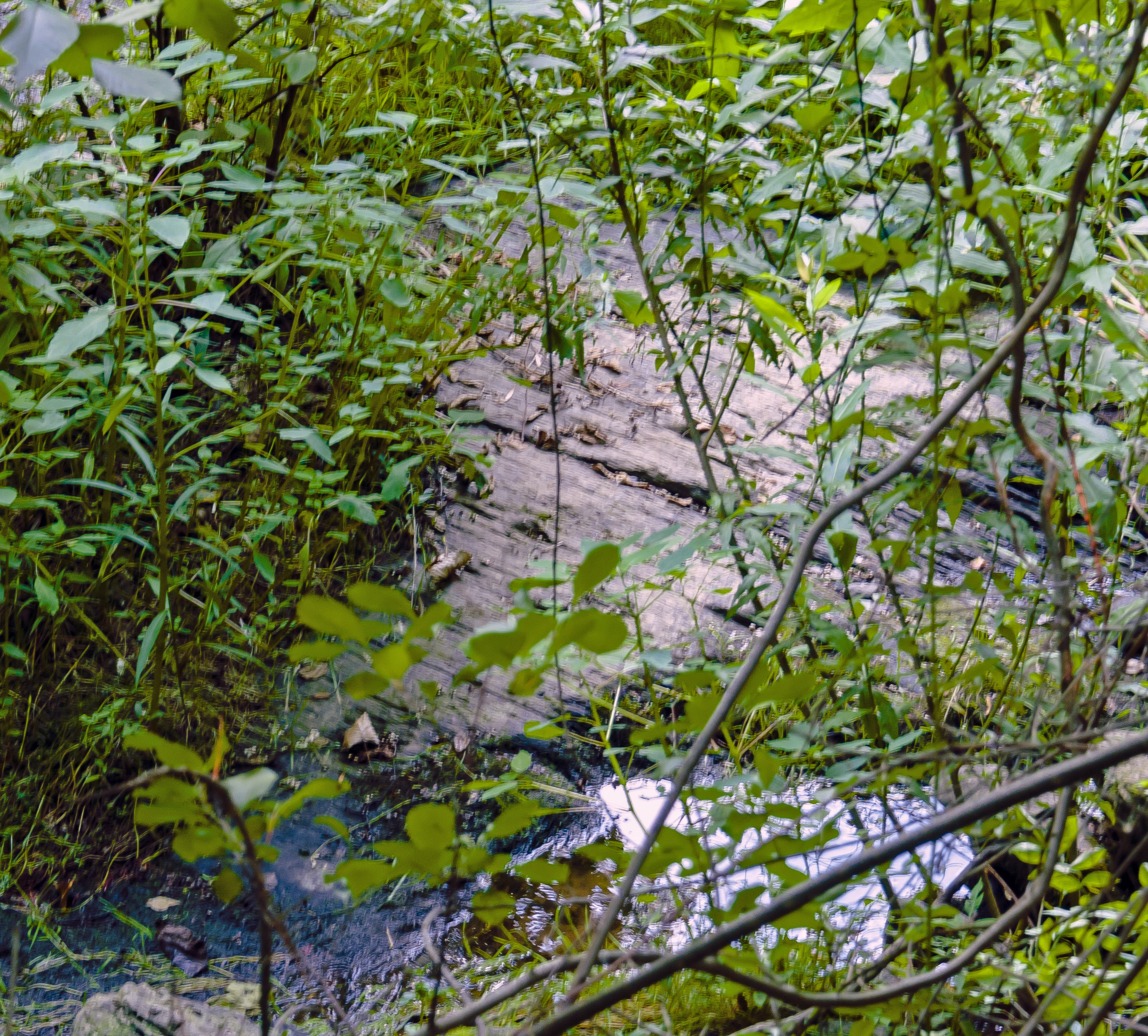 Shale bedrock in the Saw Kill streambed off Brooklyn Heights Road at Rock City, NY, USA